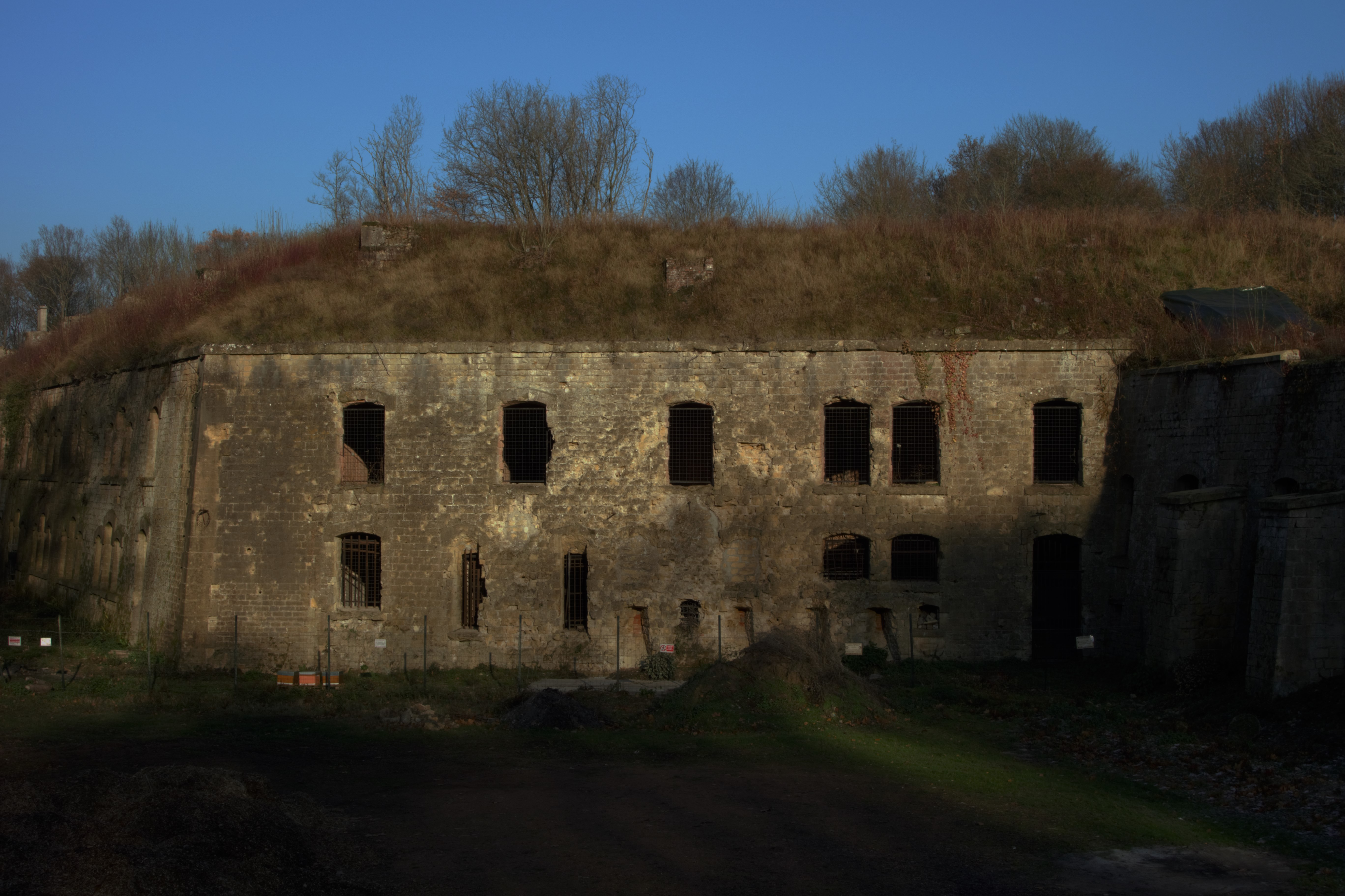 Casemate A of the Fort of Metz Queuleu seen from the bridge leading to the interior of the enclosure .